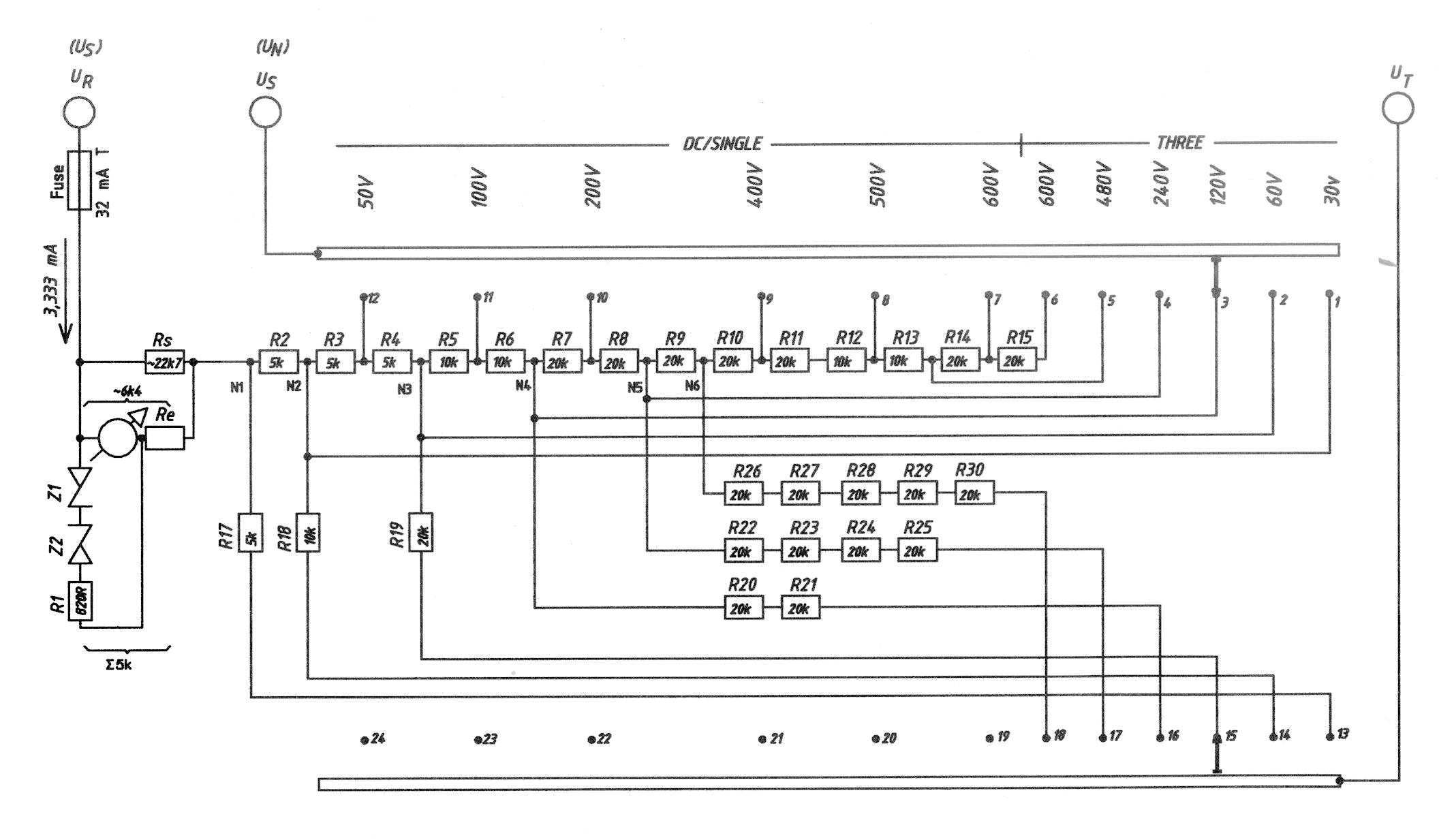 Power meter DC, single-, and three phase